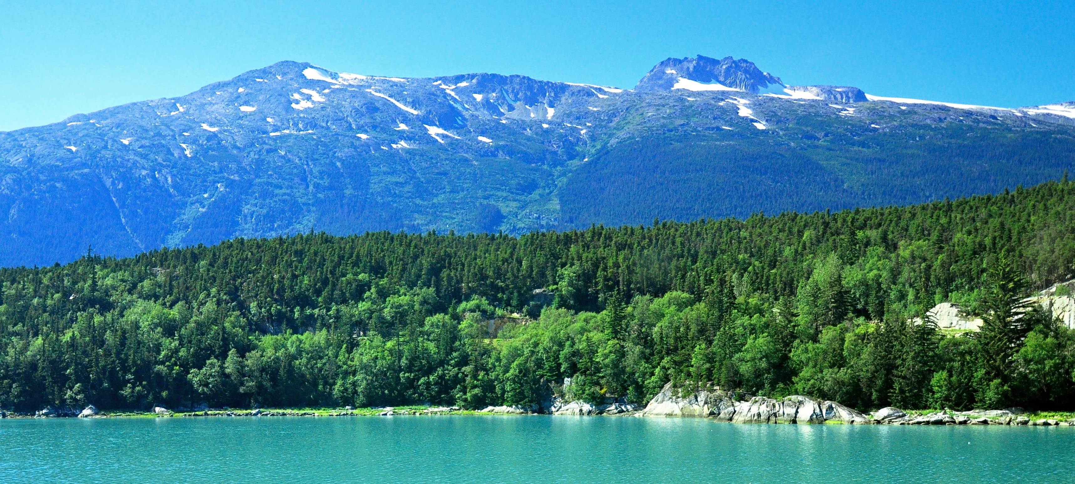 Face Mountain is 3 miles west of Skagway